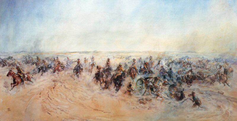 The Charge of the Warwickshire and Worcestershire Yeomanry at Huj, 8th November 1917 – one of the last cavalry charges in British Military history.